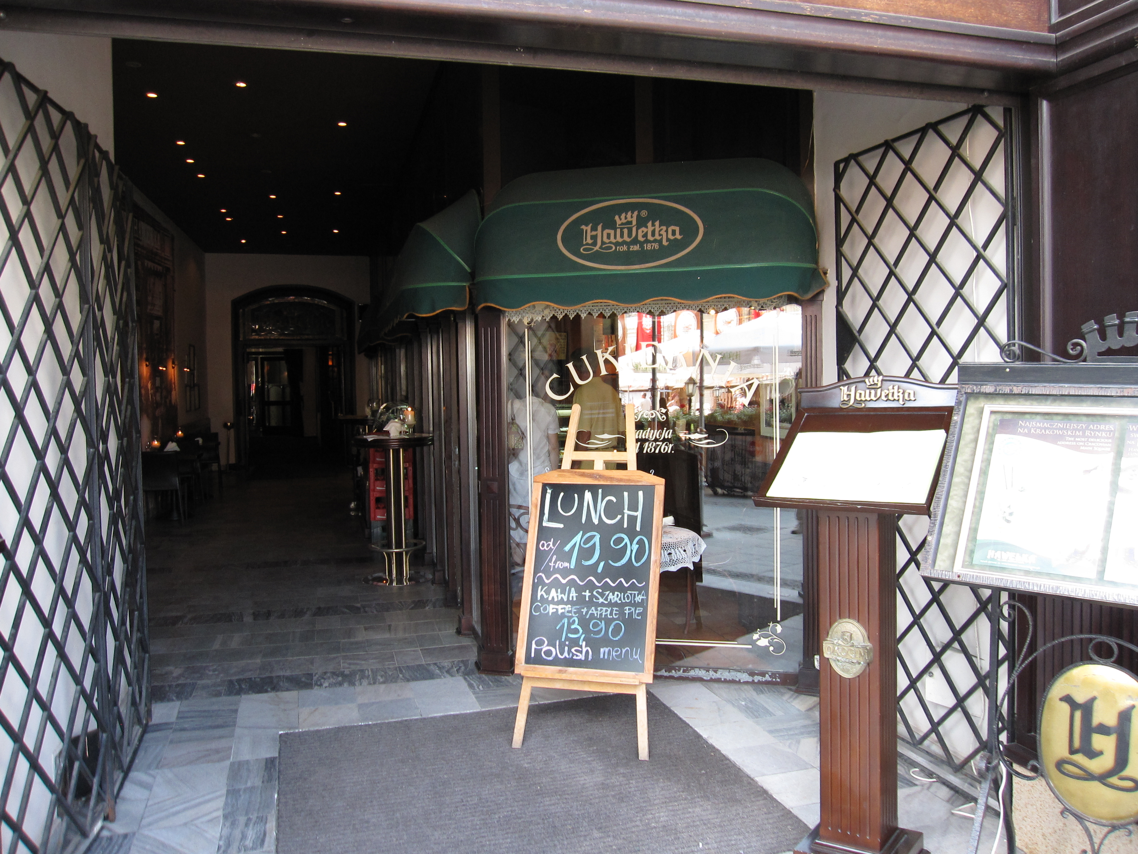 Antoni Hawełka in Krakow.